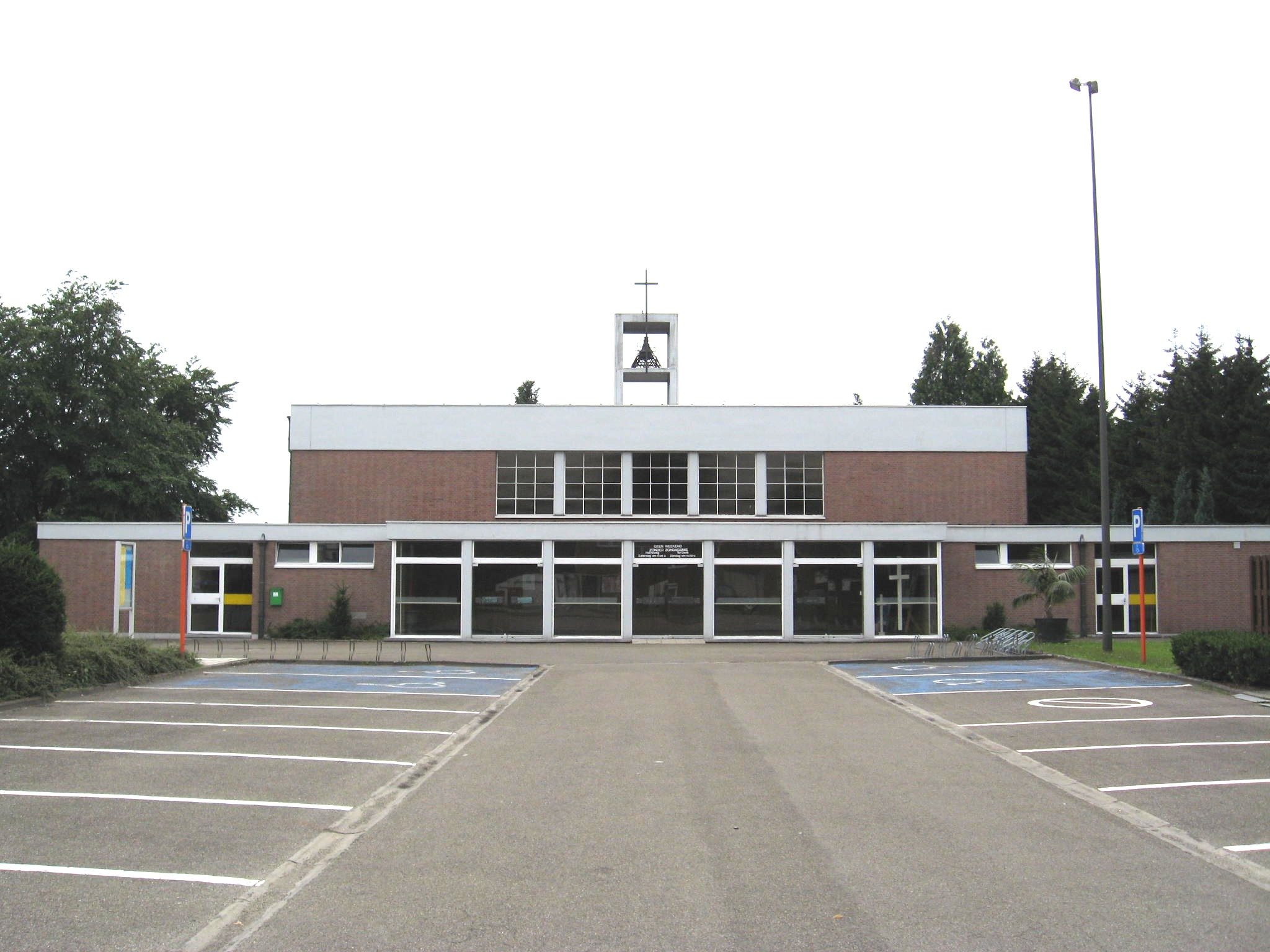 Church of Saint Joseph in Zonhoven (Halveweg), Limburg, Belgium